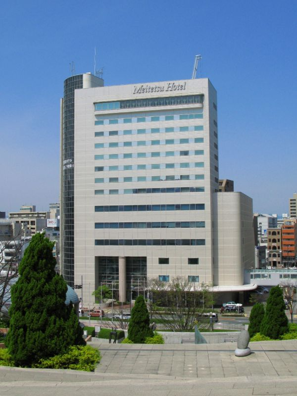 HAMAMATSU MEITETSU HOTEL CO,.Ltd